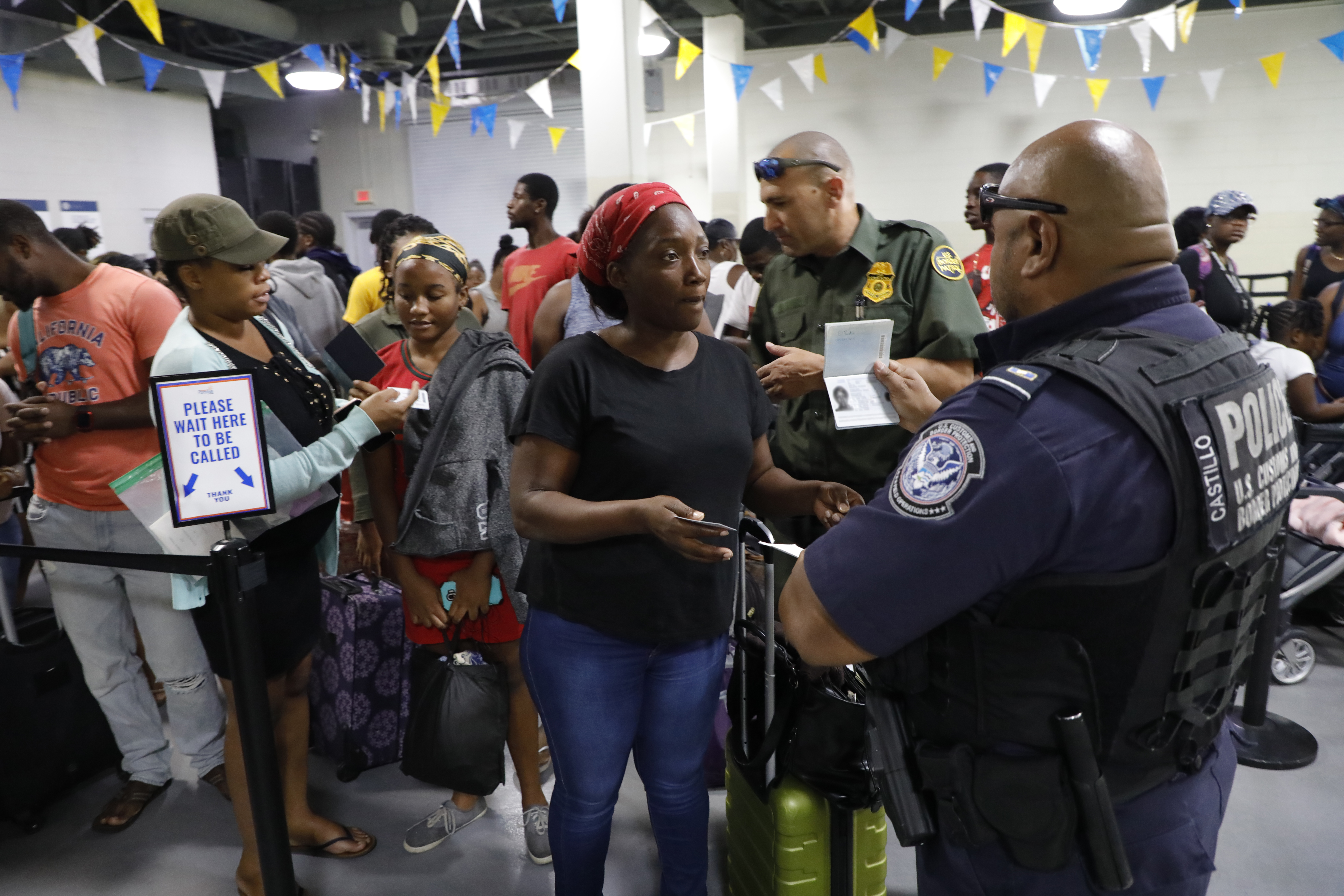 U.S. Customs and Border Protection continues to support rescue and recovery efforts in the Bahamas following the devastating impact of Hurricane Dorian. CBP is working with the Bahamas Paradise Cruise Line and is prepared to process the arrivals of passengers evacuating from the Bahamas according to established policy and procedures, in the Port of Palm Beach, Fla., Sept. 7 2019. CBP photo by Jaime Rodriguez Sr.